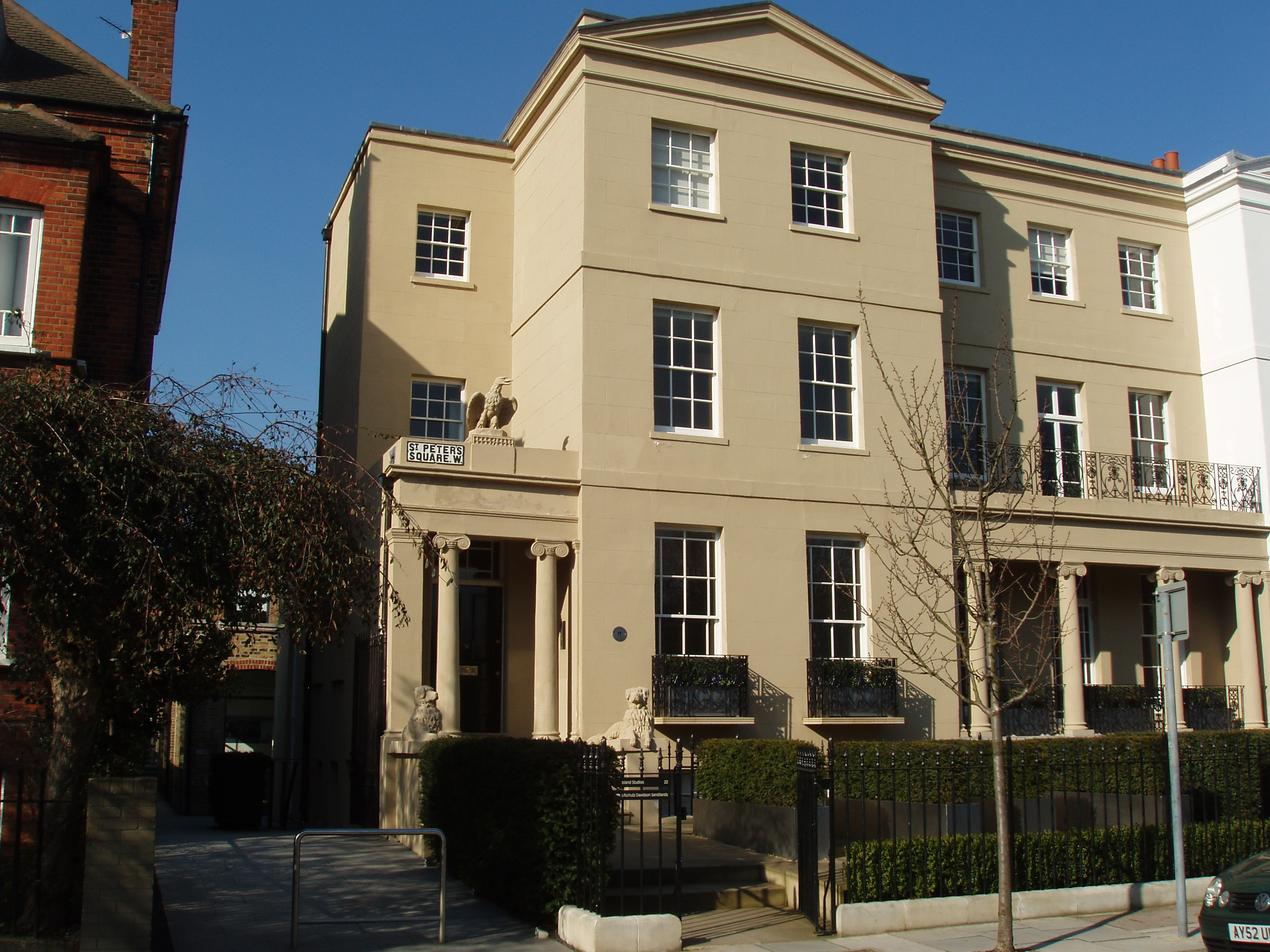 This photo was taken by me on 19th March 2010, it depicts the front building of 22 St Peter's Square, Hammersmith